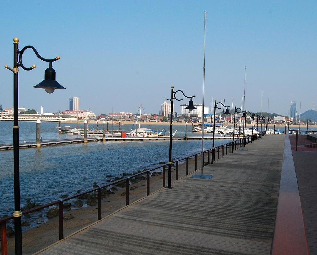 This photo taken from pulau duyong, which held sweedish match monsson cup every year.